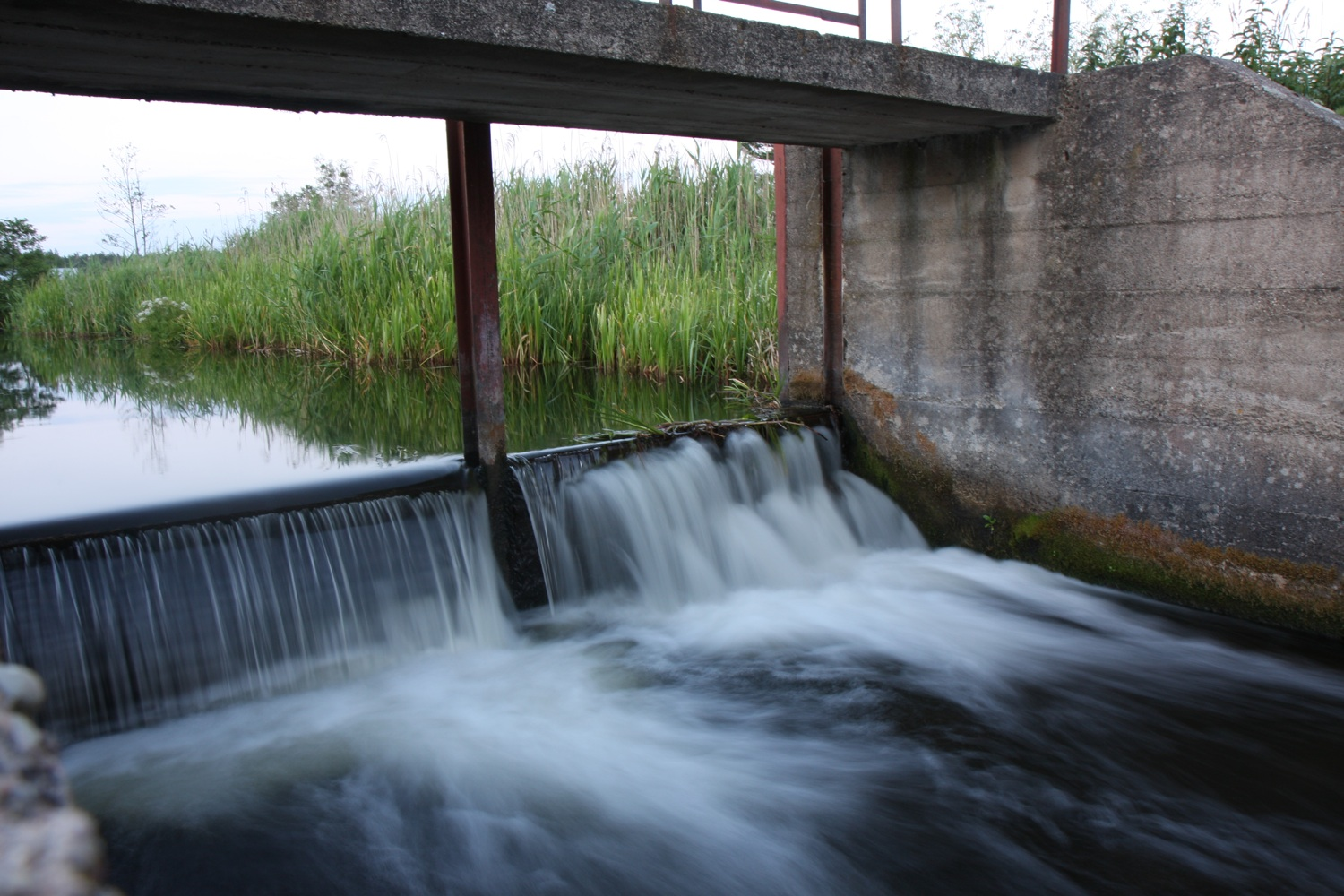 Weir on the Blizna river (Poland)